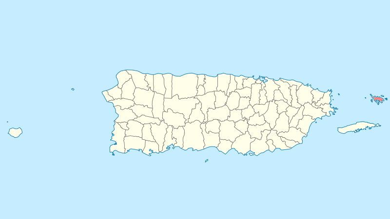 Municipal locator of Puerto Rico